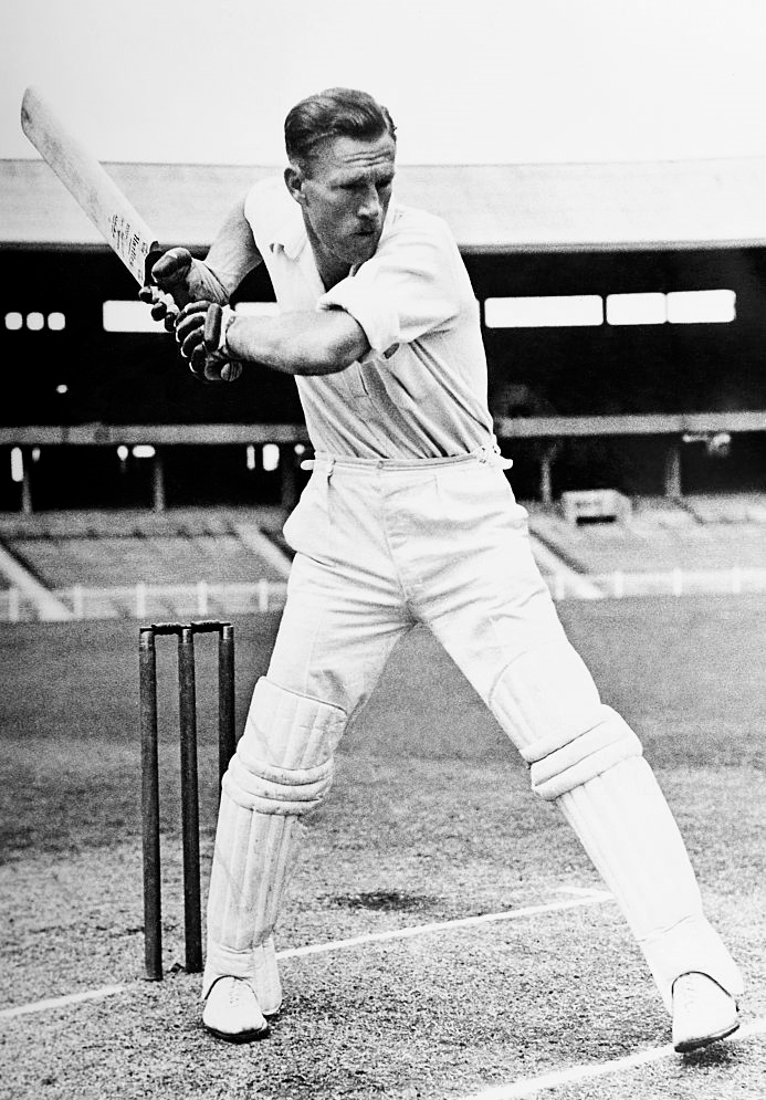 Australian cricketer Sam Loxton, circa 1948.